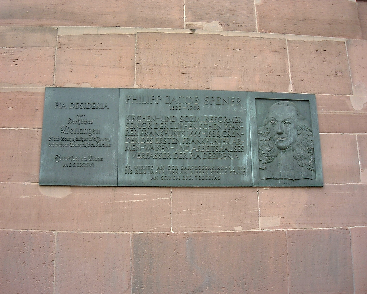 Part of the wall of the Frankfurter Paulskirche